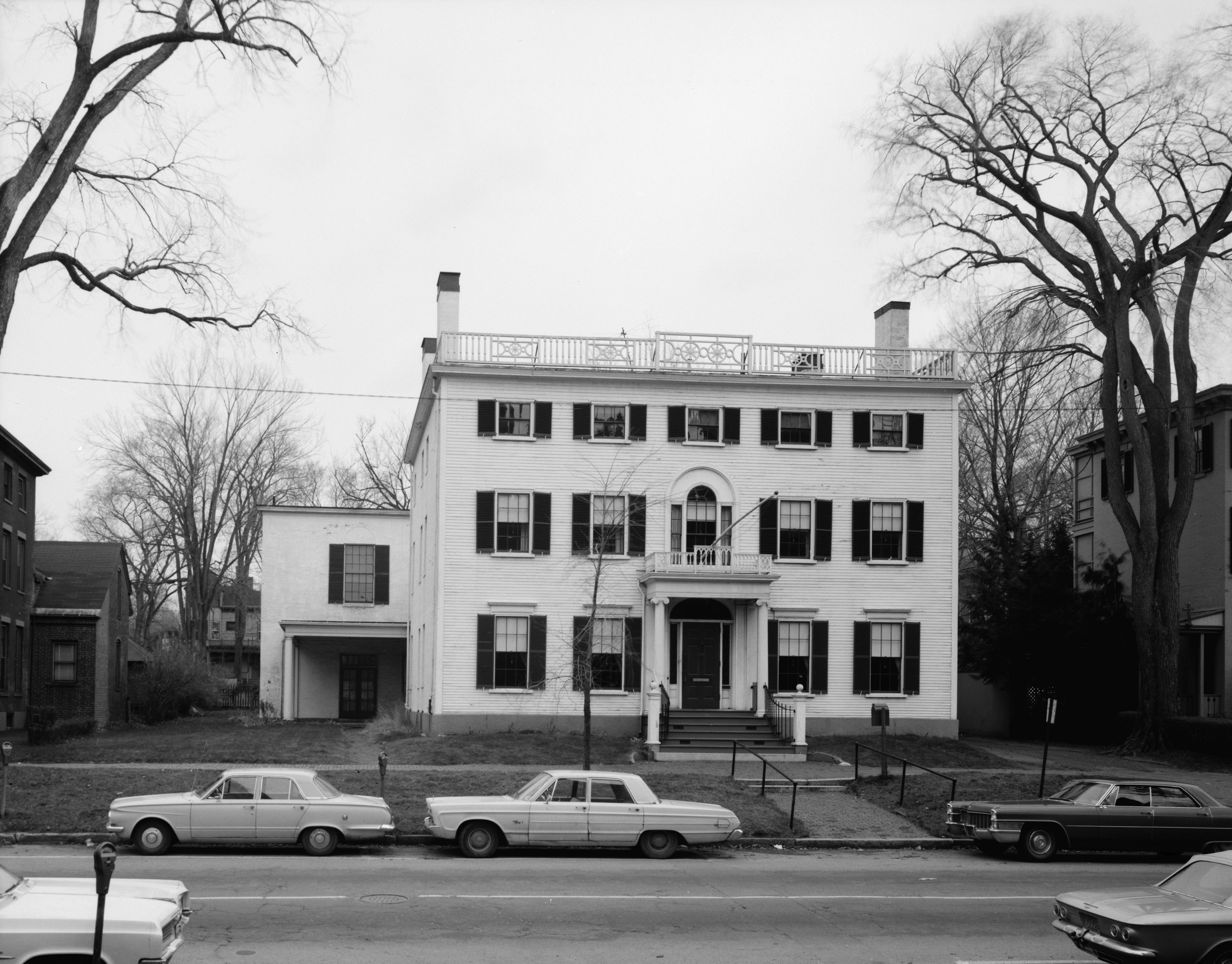 Front of the Portland Club, located at 156 State Street in Portland, Maine, United States. Built in 1805, it is listed on the National Register of Historic Places.